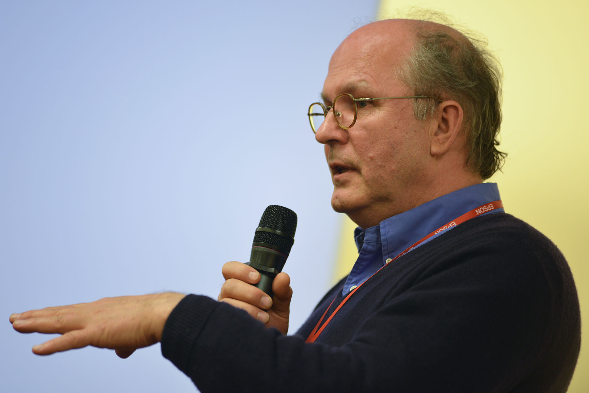 Tomasz Tomaszewski, polish photograper during FotoArtFestival in Bielsko-Biala, Poland, 2013